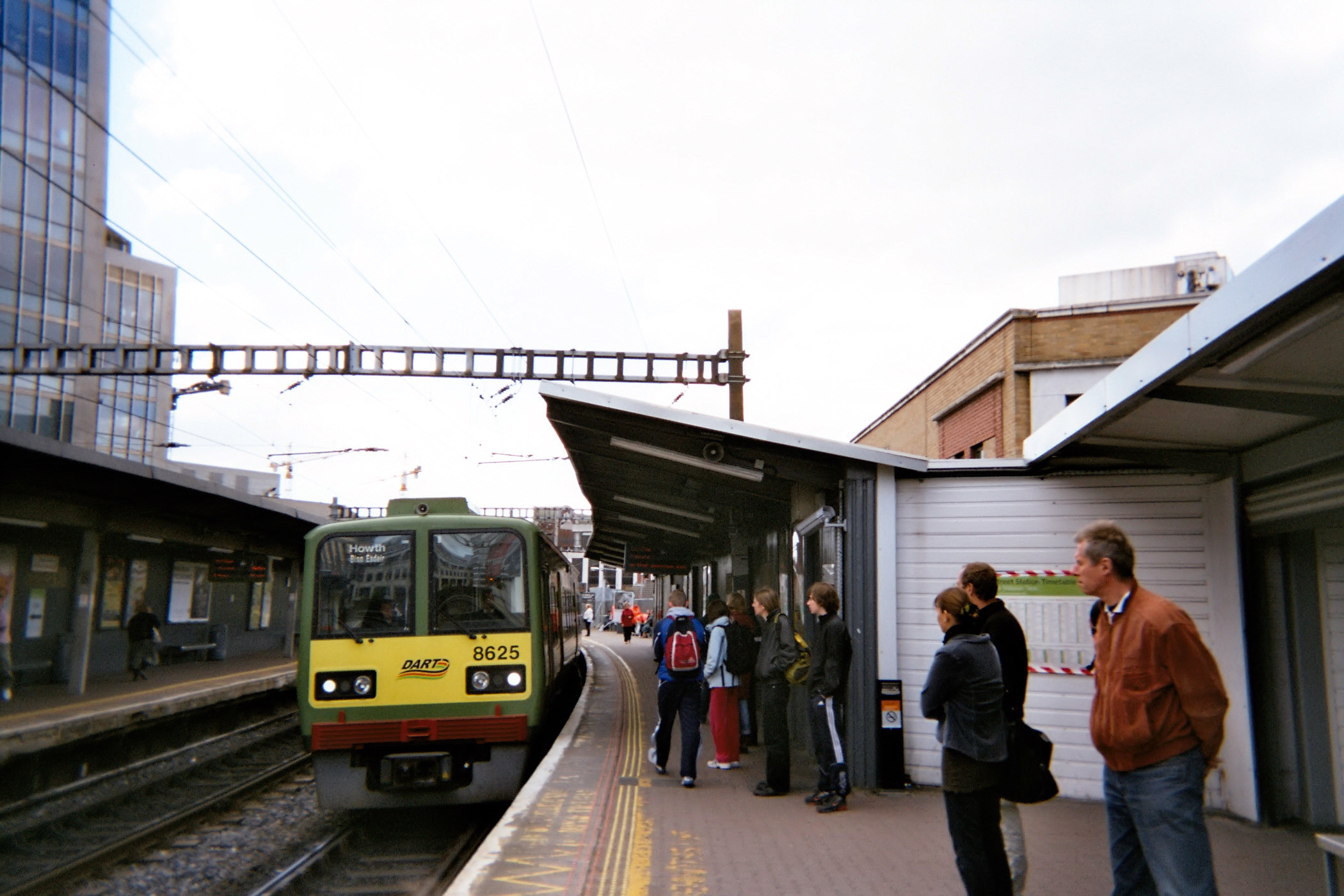 A DART IÉ 8520 Class electric multiple unit pulls into Tara Street railway station, Dublin, Ireland, on a service to Howth.